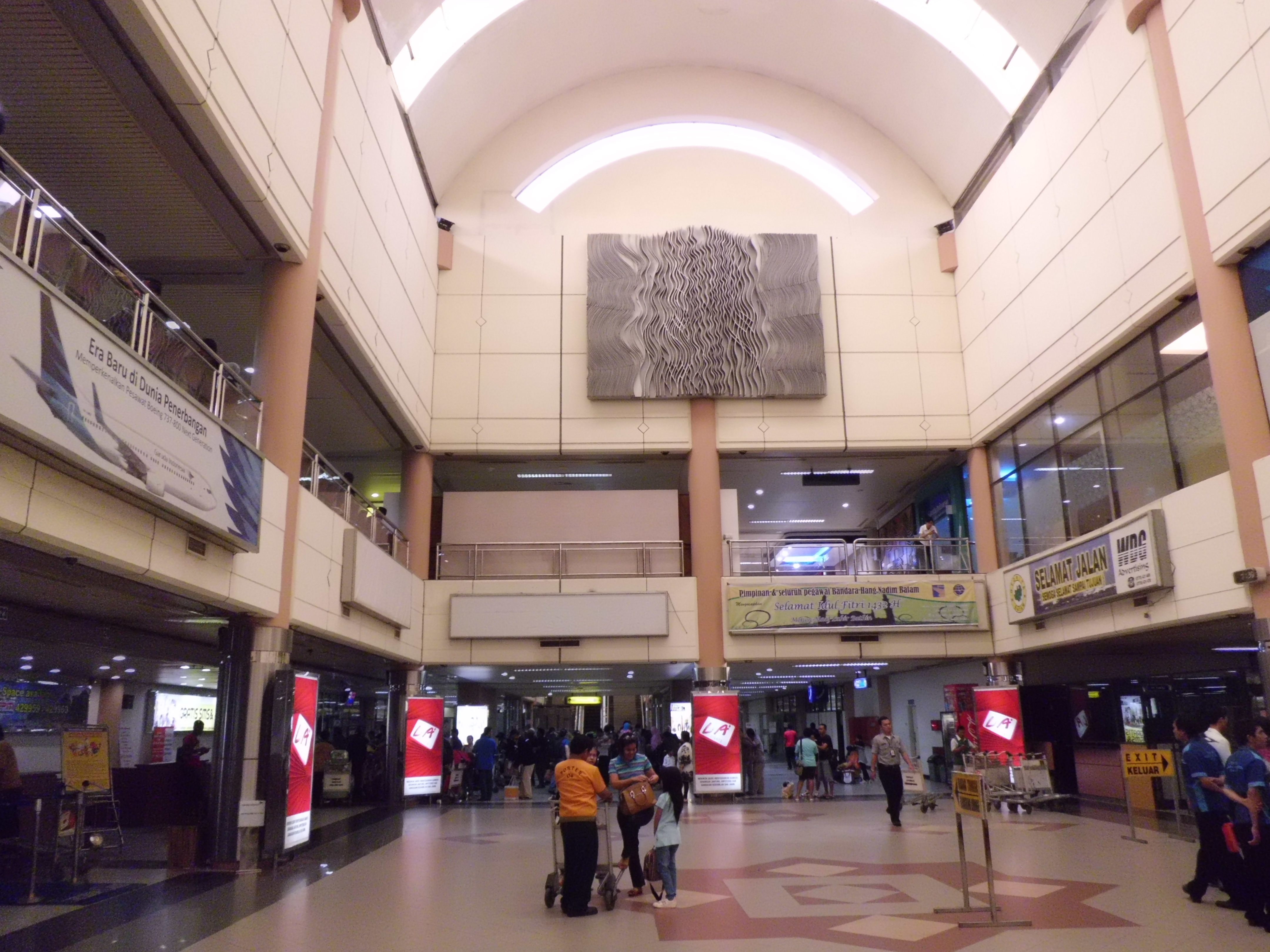 Hang Nadim International Airport Departures & Check-in Hall in Batam, Riau Islands, IndonesiaBahasa Indonesia: Aula Keberangkatan & Check-in Bandar Udara Internasional Hang Nadim di Batam, Kepulauan Riau, Indonesia